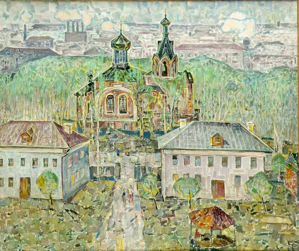 Boris Arakcheev, "Alexander Nevsky Church", 1966, oil on canvas, 113 x 153 cm